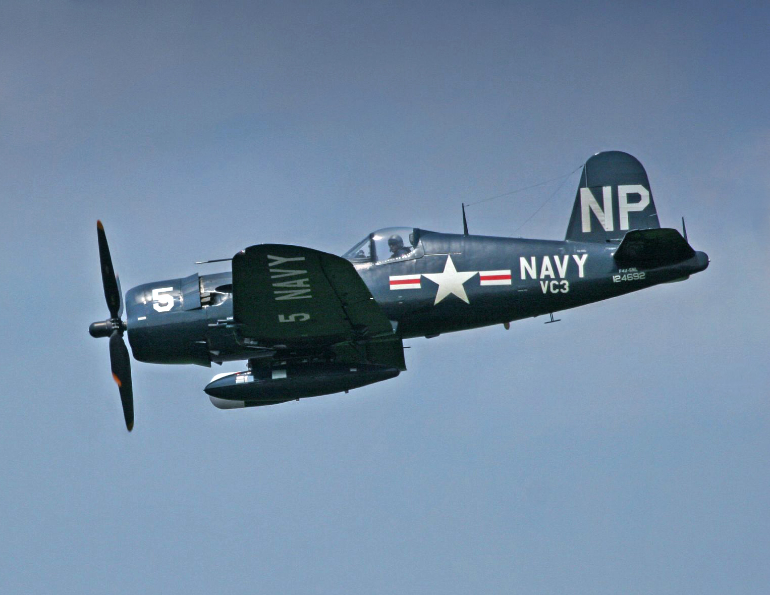 An F4U-5NL Corsair (Bu. 124692), previously from the Honduran Air Force, at the Geneseo Airshow Equipped with the air intercept radar (right wing) and a 154 gallon drop tank.